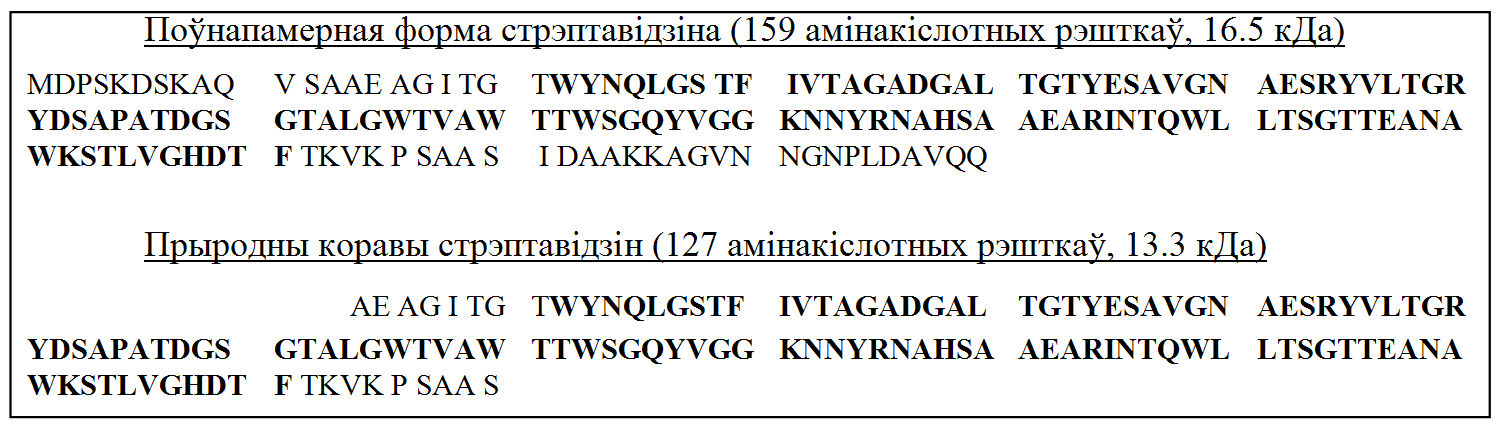 There is a comparison of sequences of full-sized and mature forms of STREPTAVIDIN monomers. "Core" is bolded. Беларуская (тарашкевіца): Параўнаньне амінакіслотных паслядоўнасьцяў розных формаў манамераў стрэптавідзіна. Тоўстым выдзелены кор (анг. "core") стрэптавідзіна